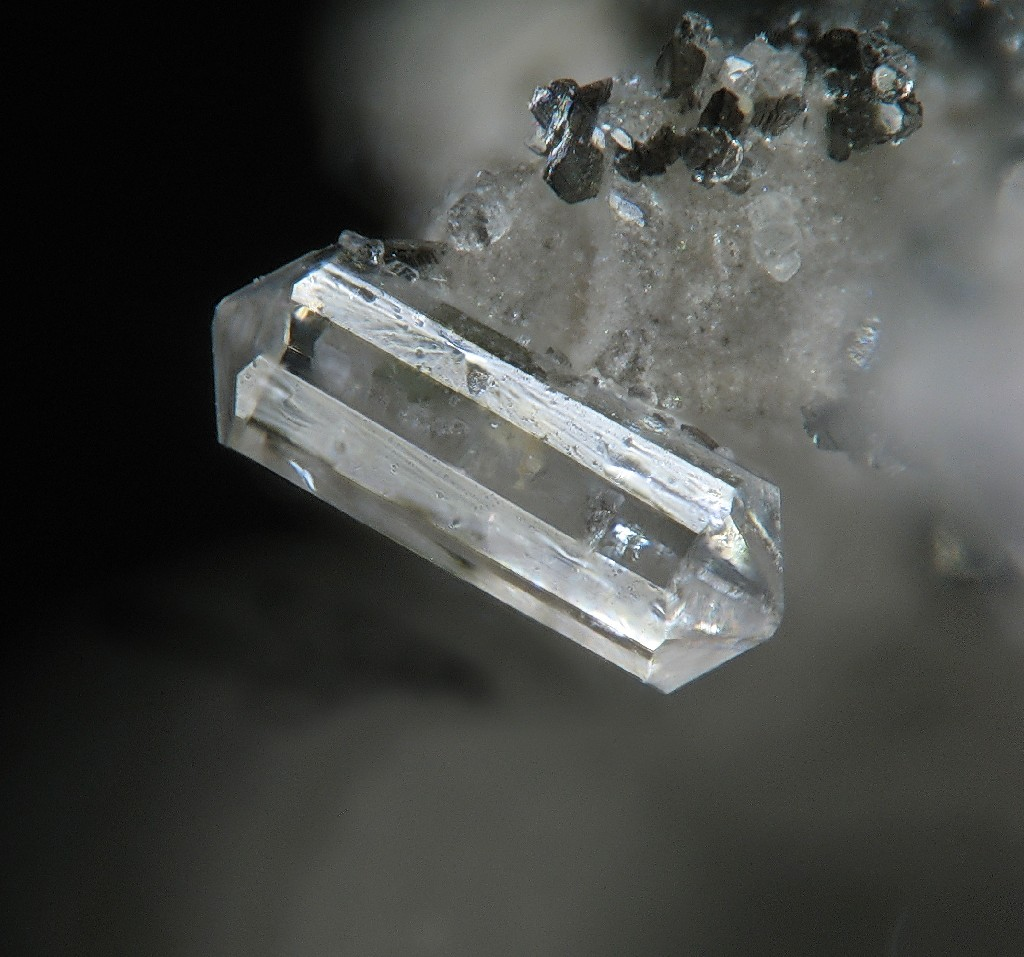 Milarite Locality: Venero 1 Quarry, Cadalso de los Vidrios, Madrid, Spain (Locality at ) Picture width 1,6 mm. Collection and photograph Christian Rewitzer